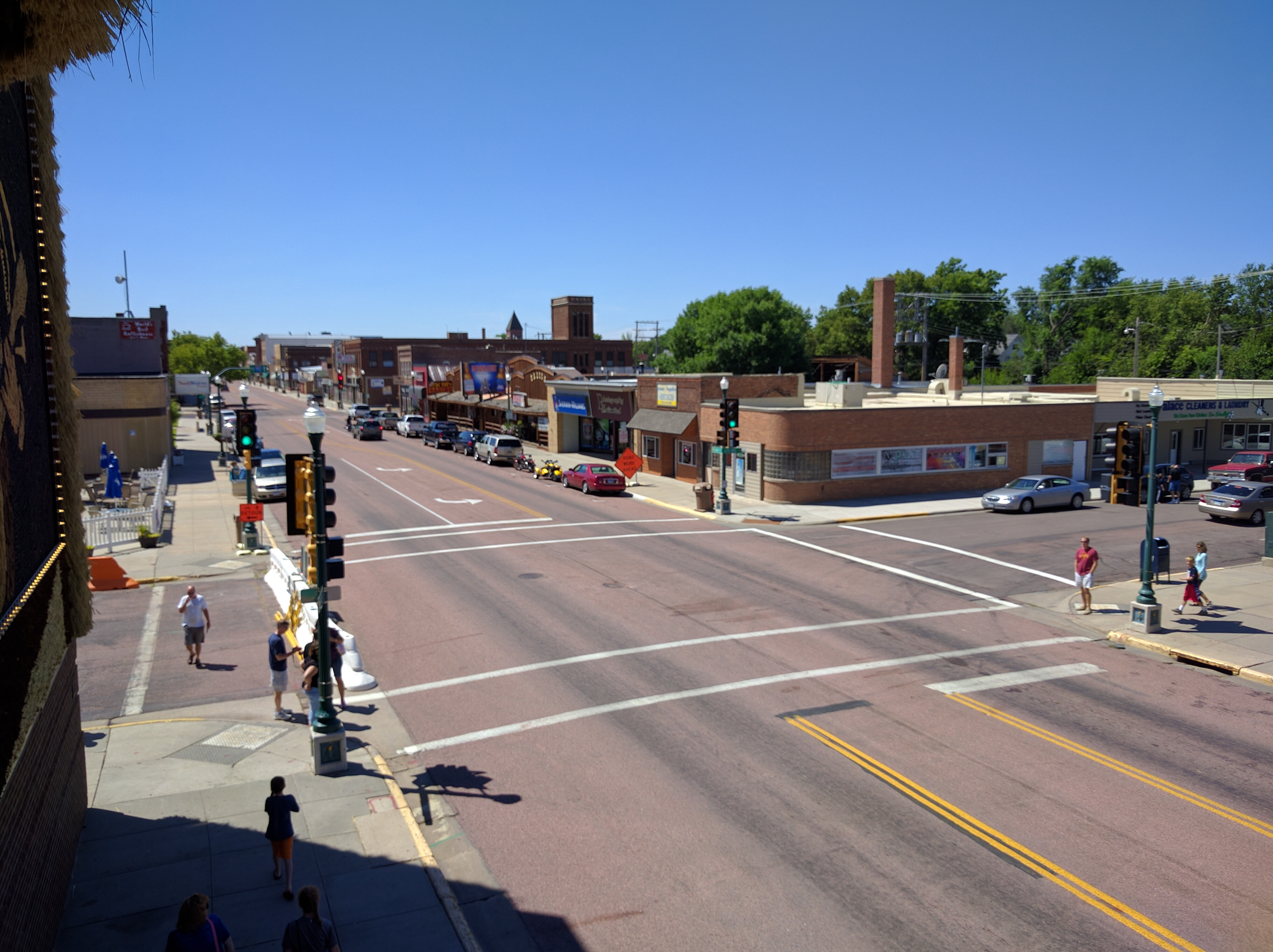 Mitchell, South Dakota